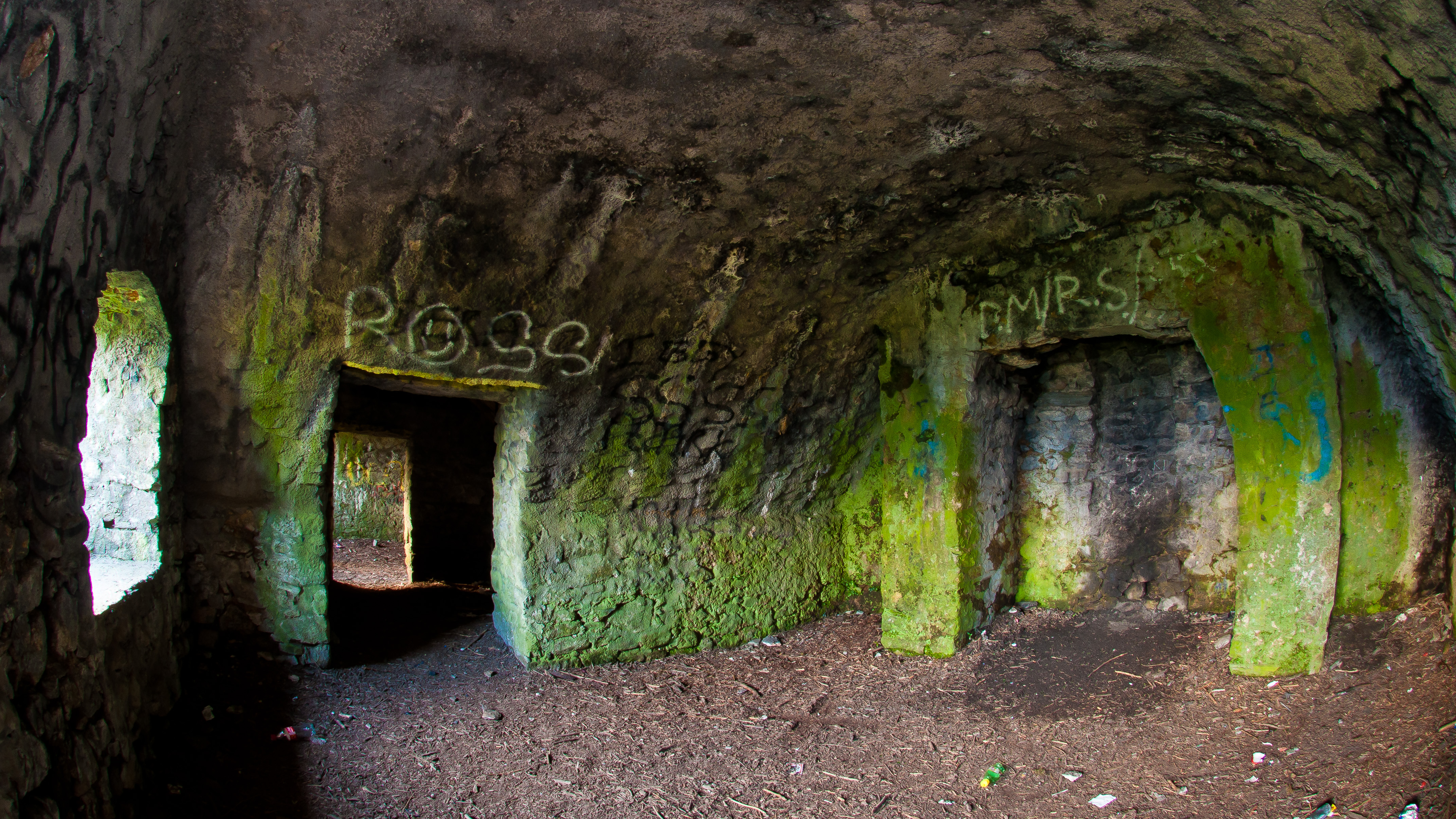 Fisheye image of the kitchen on the lower floor of the Hell Fire Club on Montpelier Hill, Dublin, Ireland